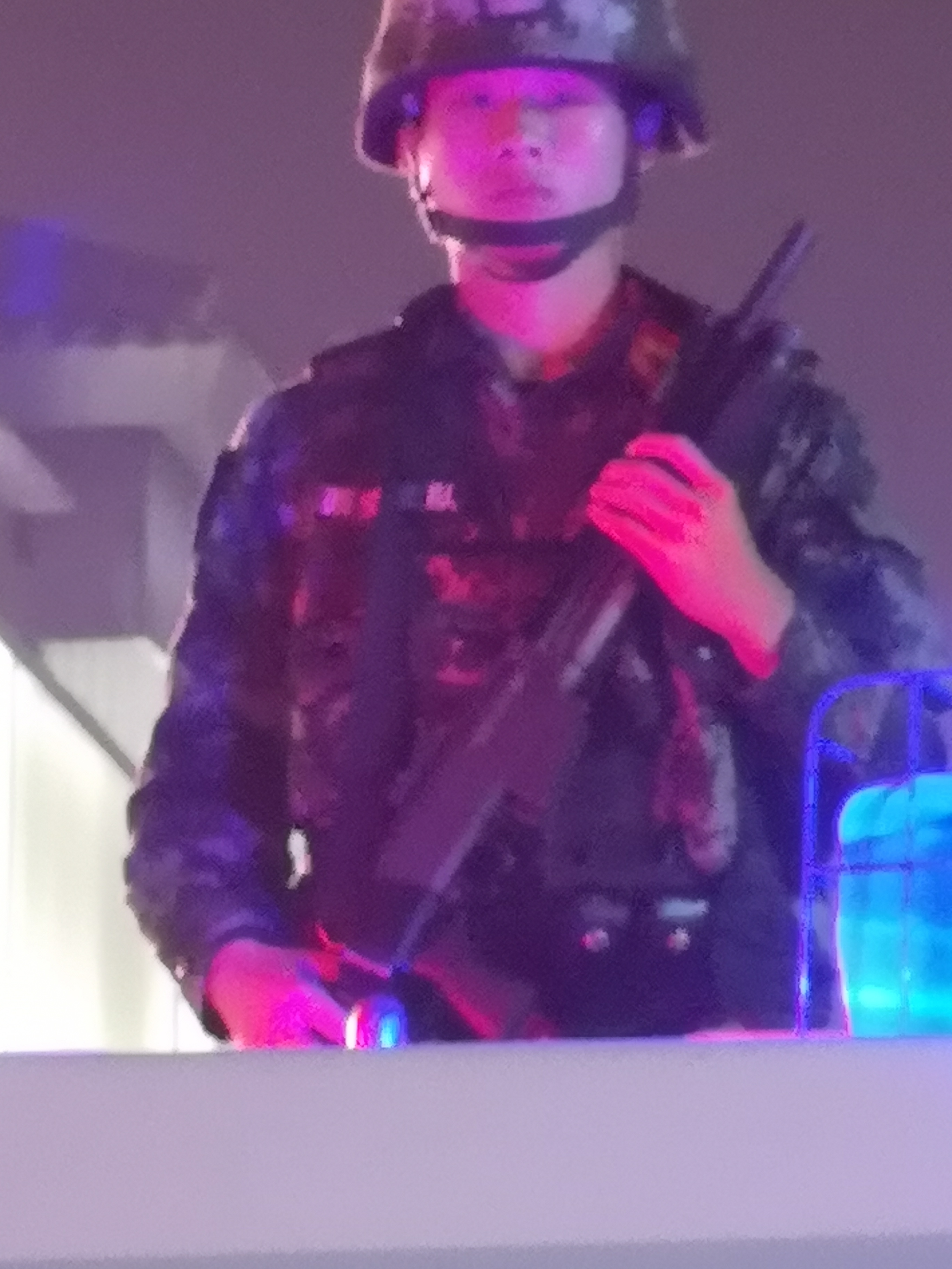 An armed Chinese policeman stands guard from a police vehicle with a Hawk Industries Type 97 shotgun in front of the Xi'an Gaoke Annex Building. The blue and red police lights of the vehicle are on and swiveling, lighting up the dark night. The side of the white police vehicle reads "武警" (Wǔjǐng) meaning "armed police". The Gaoke Annex Building contains many restaurants and shops attracting many Xi'an and tourist consumers. Upon realization that I had taken the photograph, I was asked by another armed policeman to delete the photograph. I only pretended to do so.